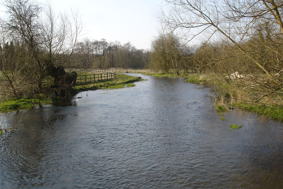 I took this pic in April 2007